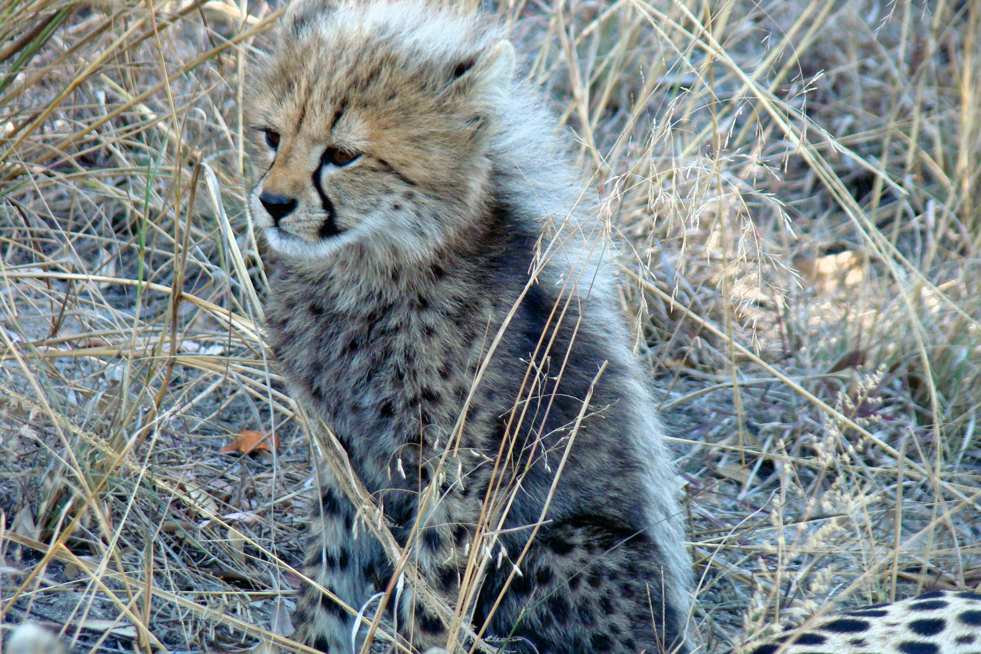 A nice cheetah (Acinonyx jubatus) youngster, photographed in Sabi Sand Private Game Reserve, South Africa.